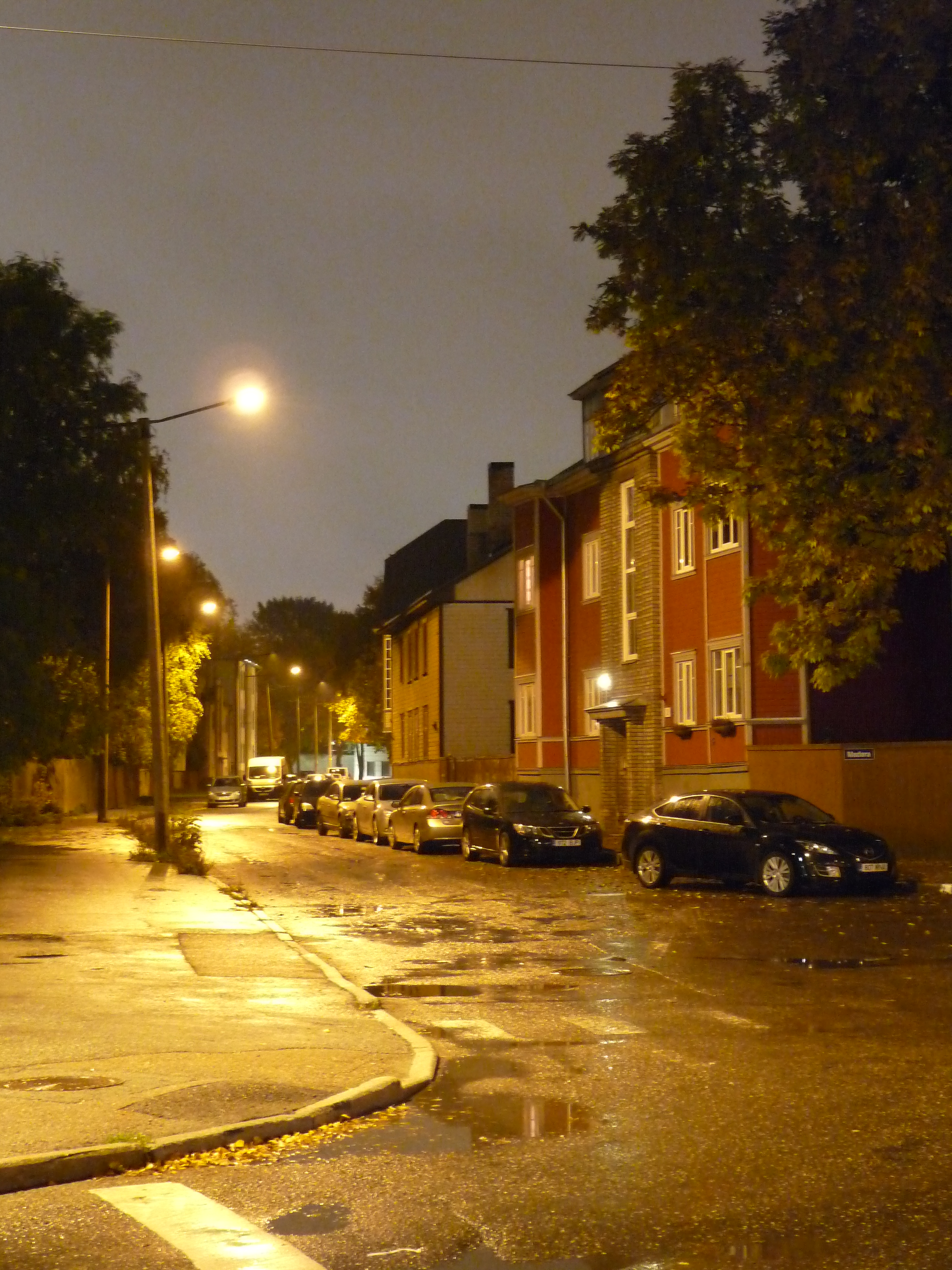 Madara street in Tallinn, Estonia